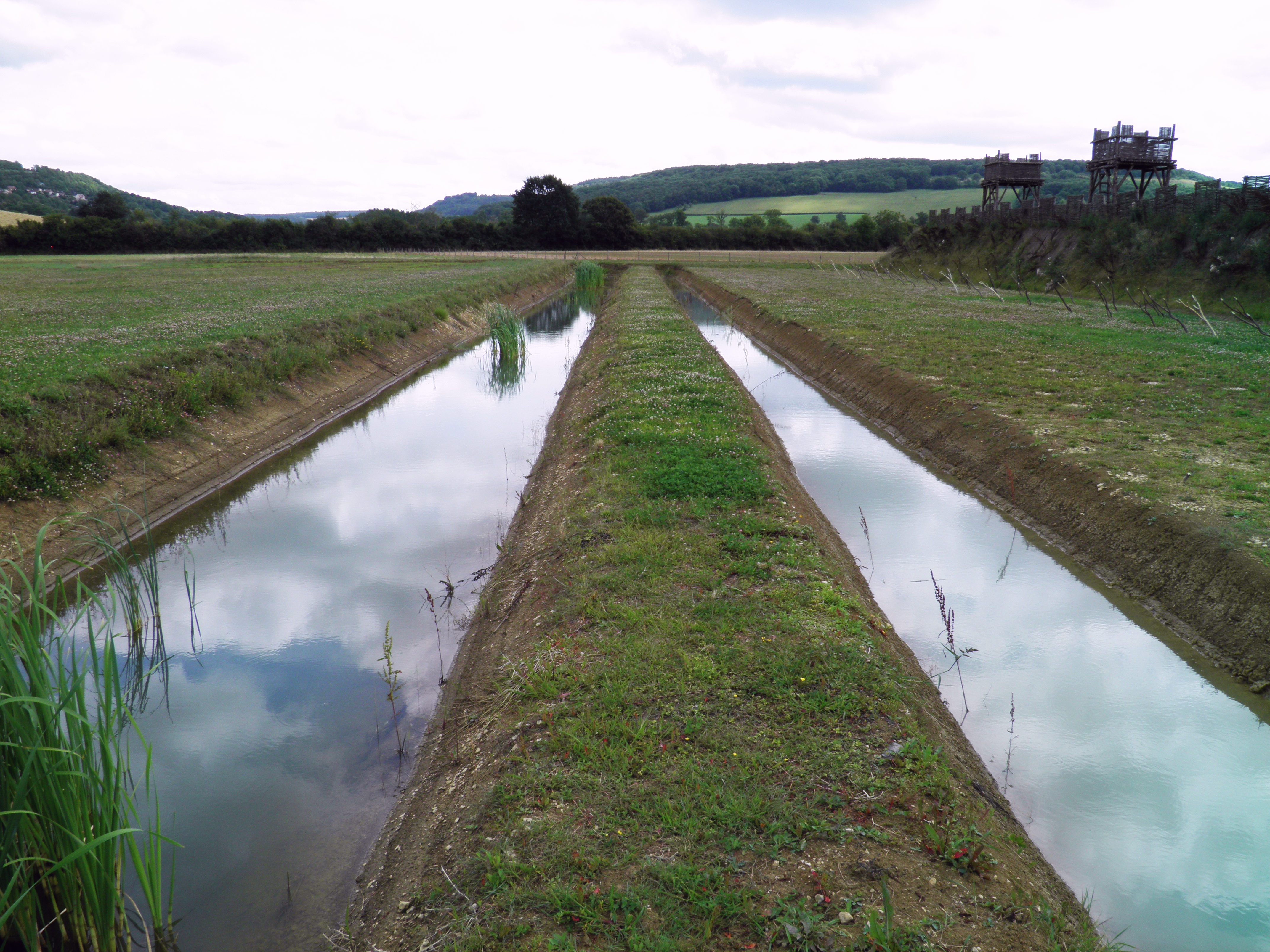 In the plain, two trenches were the first obstacles positioned in front of the contravallation line. At the moment of the siege (late summer - early fall) the first and the widest was filled with water channeled from a stream, while the second was dry. The next obstacle was a 14 - 17 m wide glacis followed by two types of trap. First came the stimuli, metal goads embedded in short stakes planted in the ground and arranged in six rows in a staggered formation; A third, apparently dry, trench bordered the foot of the rampart.